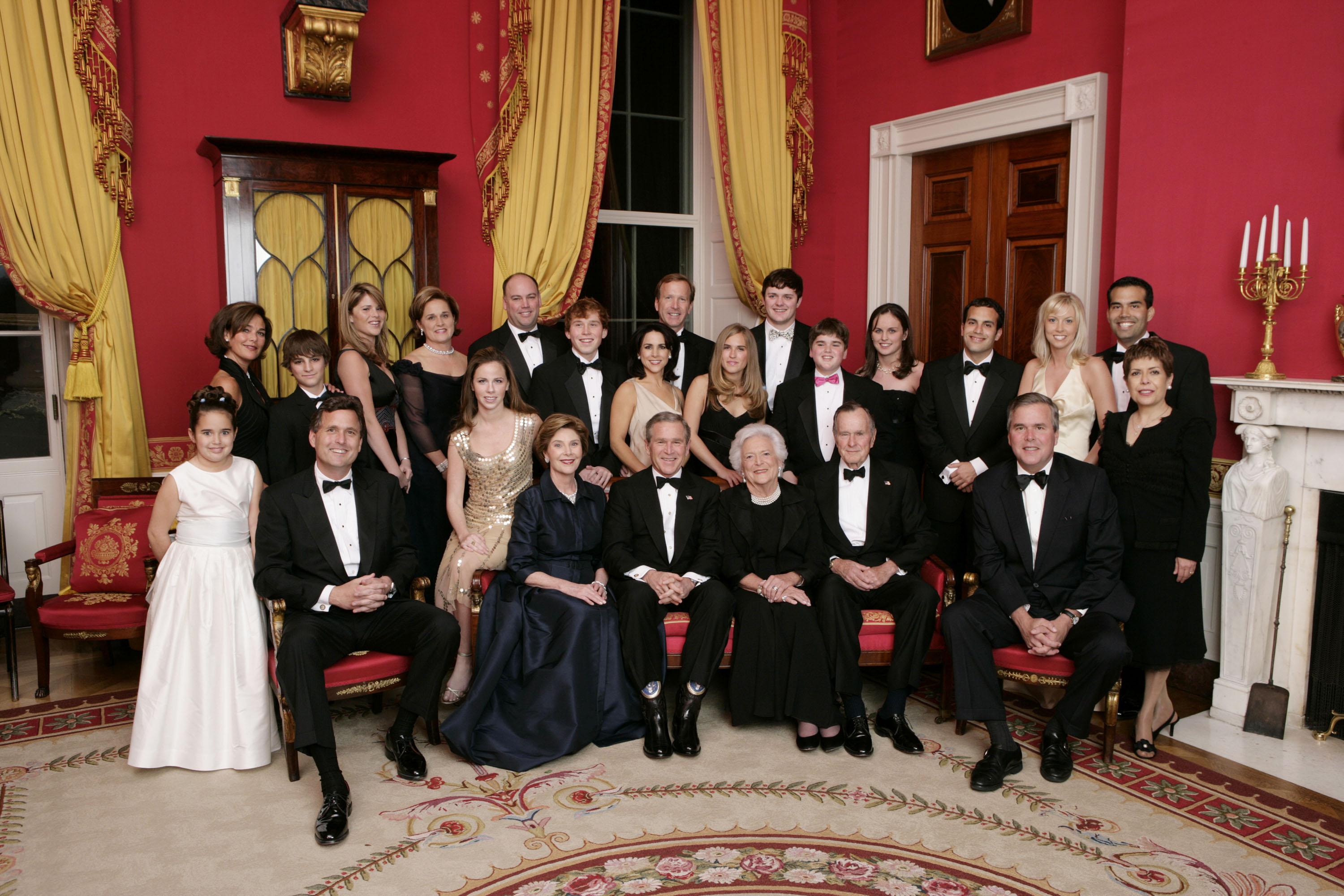 President George W. Bush, Laura Bush, former First Lady Barbara Bush, and former President George H.W. Bush sit surrounded by family in the Red Room, Thursday, Jan. 6, 2005. Friends and family joined former President Bush and Mrs. Bush in celebrating their 60th wedding anniversary during a dinner held at the White House. Also pictured are, from left, Georgia Grace Koch, Margaret Bush, Walker Bush, Marvin Bush, Jenna Bush, Doro Koch, Barbara Bush, Robert P. Koch, Pierce M. Bush, Maria Bush, Neil Bush, Ashley Bush, Sam LeBlond, Robert Koch, Nancy Ellis LeBlond, John Ellis Bush, Jr., Florida Gov. John Ellis "Jeb" Bush, Mandi Bush, George P. Bush, and Columba Bush.